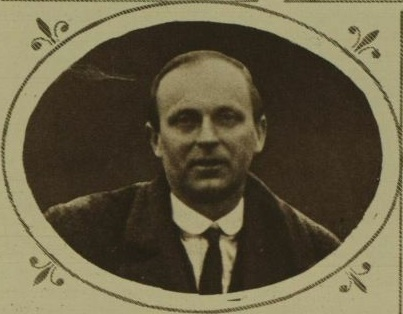 Thomas Kennedy, Member of Parliament for Kirkcaldy Boroughs